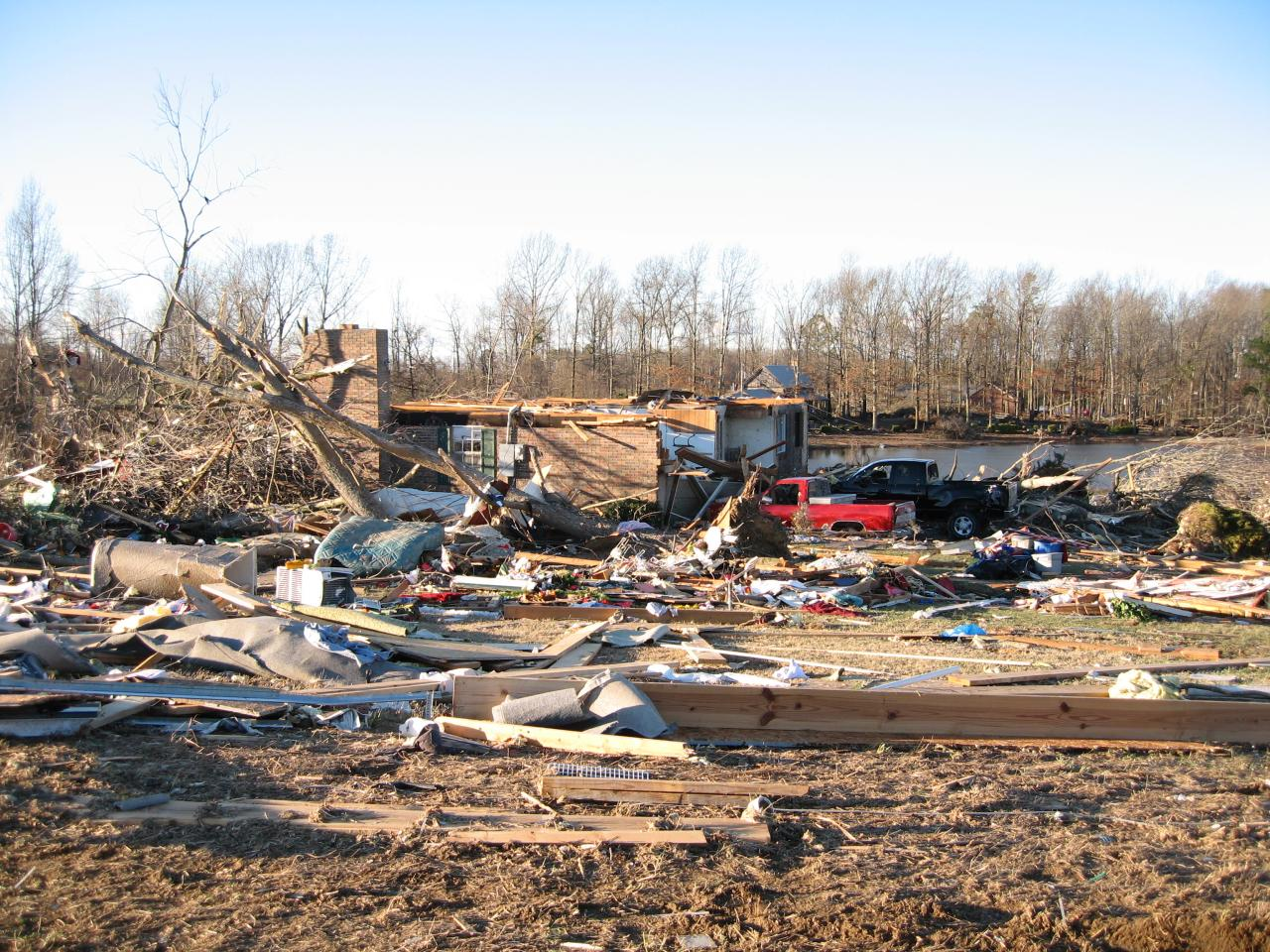 Severe damage to a home by an EF4 tornado that struck portions of Jackson County, Alabama on February 6, 2008.